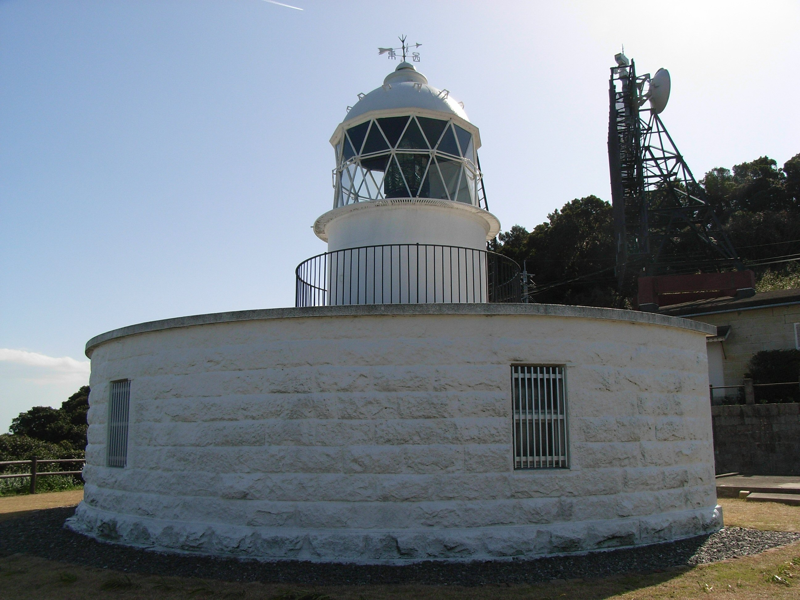 Hesaki lighthouse is one of the oldest lighthouses in Japan.